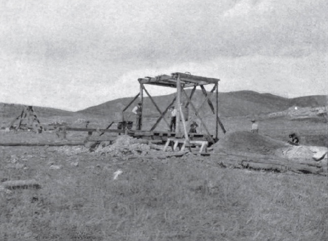 Sapphire mine of Yogo District, Montana. Mine shaft.